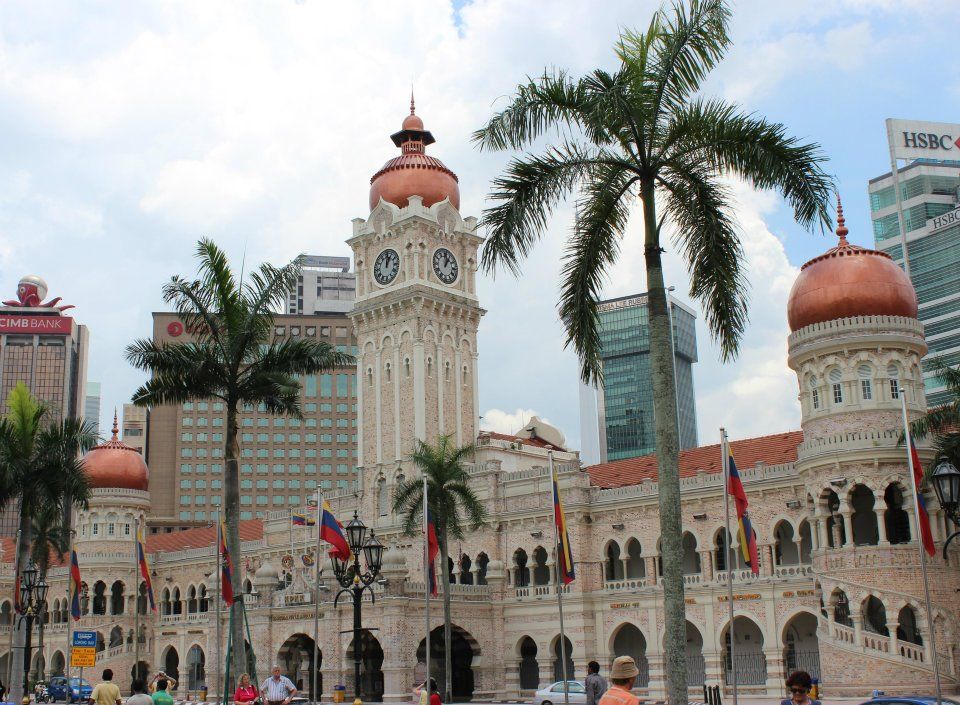 Sultan Abdul Samad Building, Kuala Lumpur, Malaysia